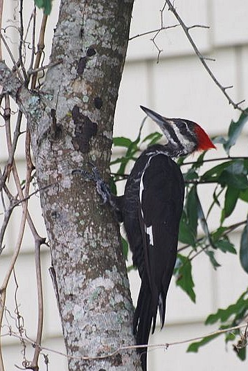 Mature female pileated woodpecker Dryocopus pileatus. Photographed 9/15/2007 by Ross Herbert, Edgewater FL, USA.